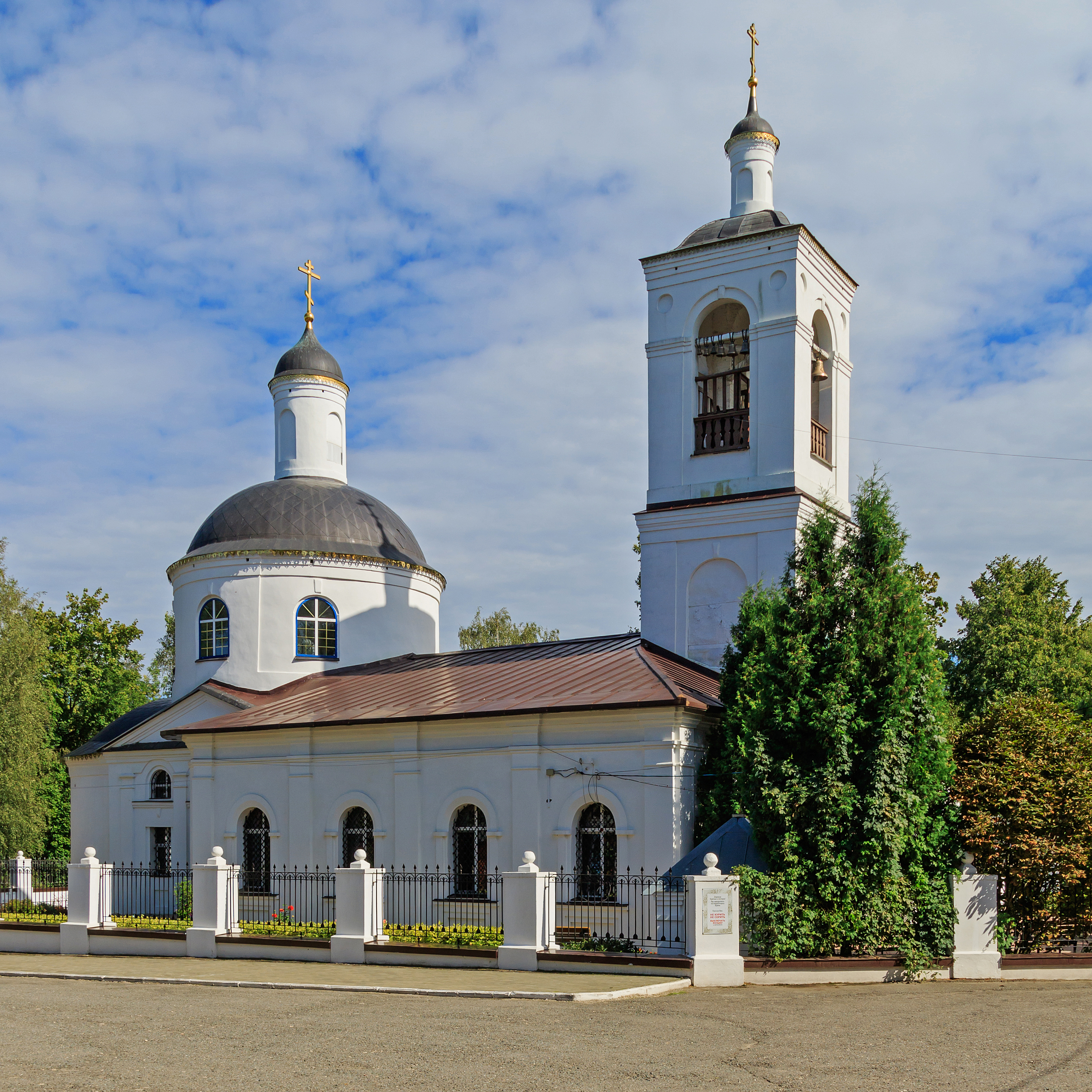 Church of Our Lady of Tikhvin in Stupino. Moscow Oblast, Russia.